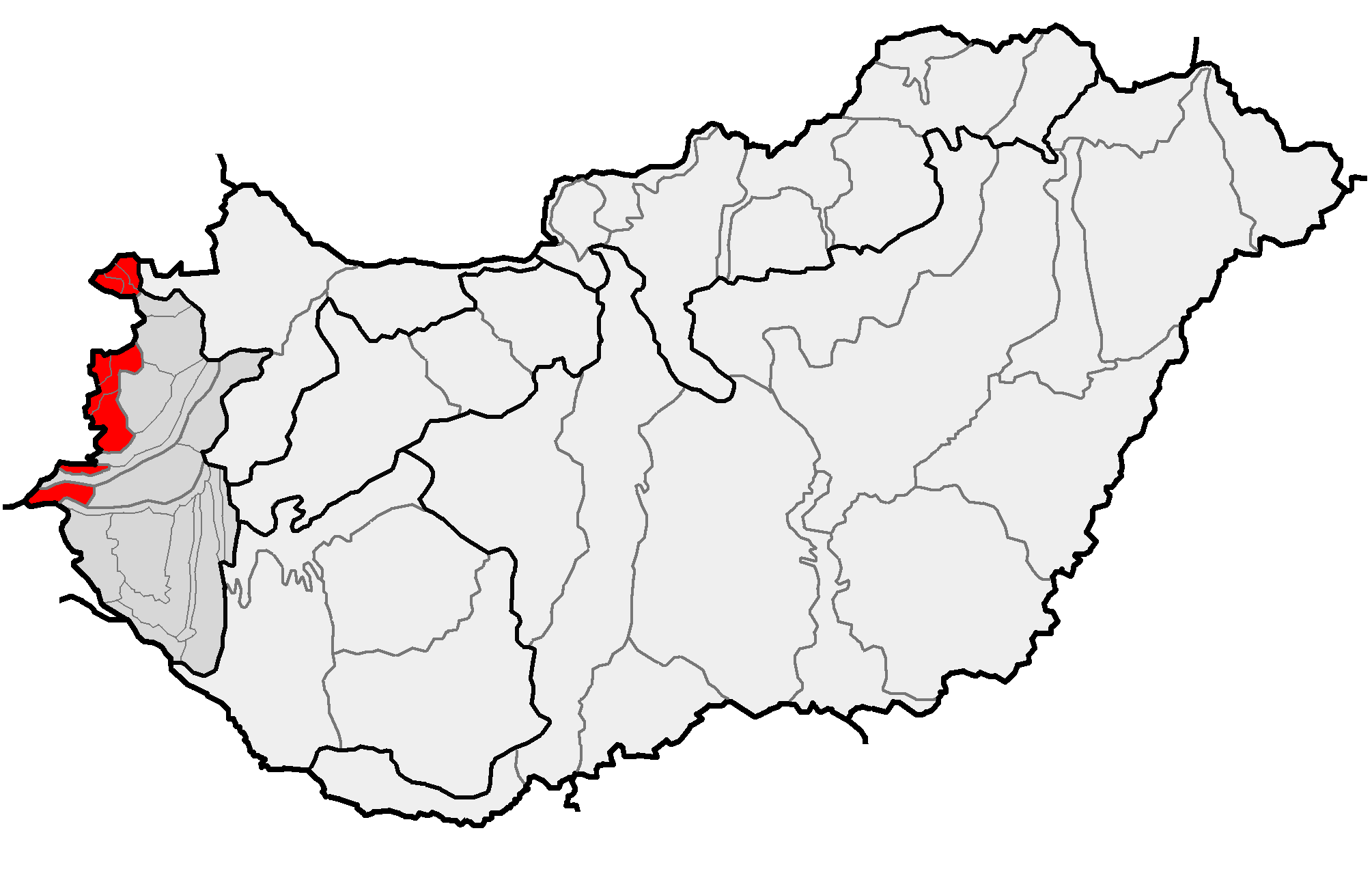 Location of geographical mesoregion of Alpokalja (red) and macroregion of Nyugat-magyarországi peremvidék (gray) within subdivisions of Hungary.